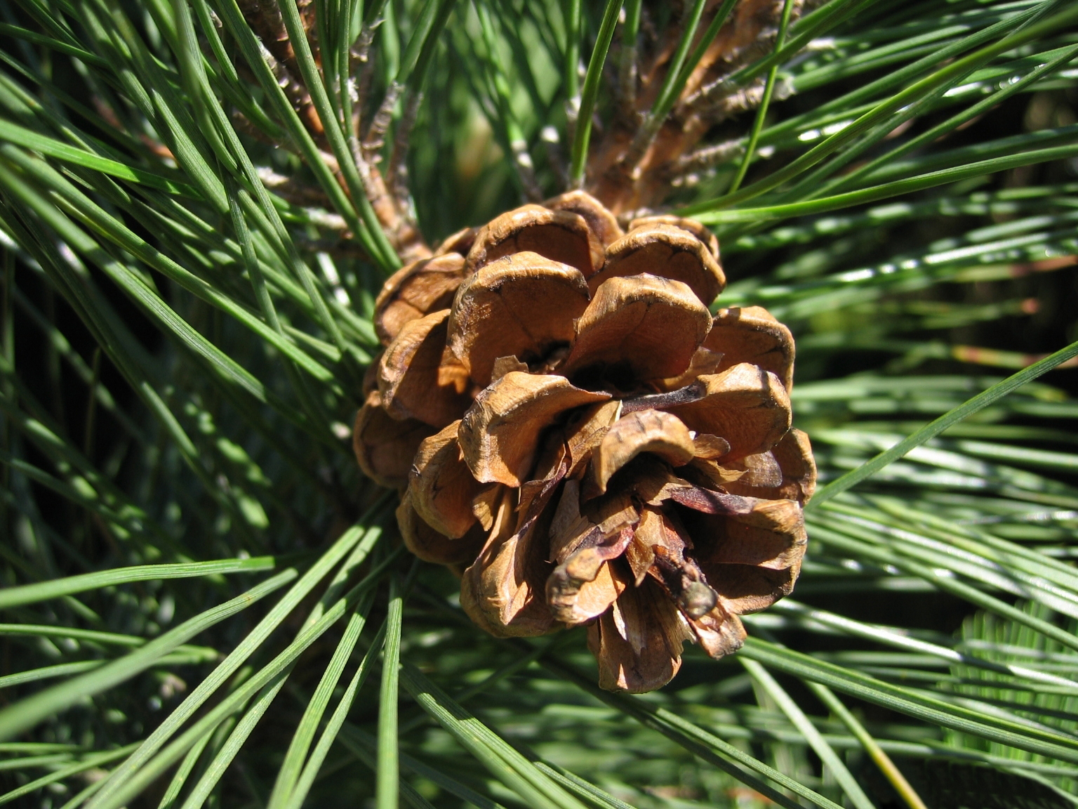 Pinus resinosa mature open cone. Maine.